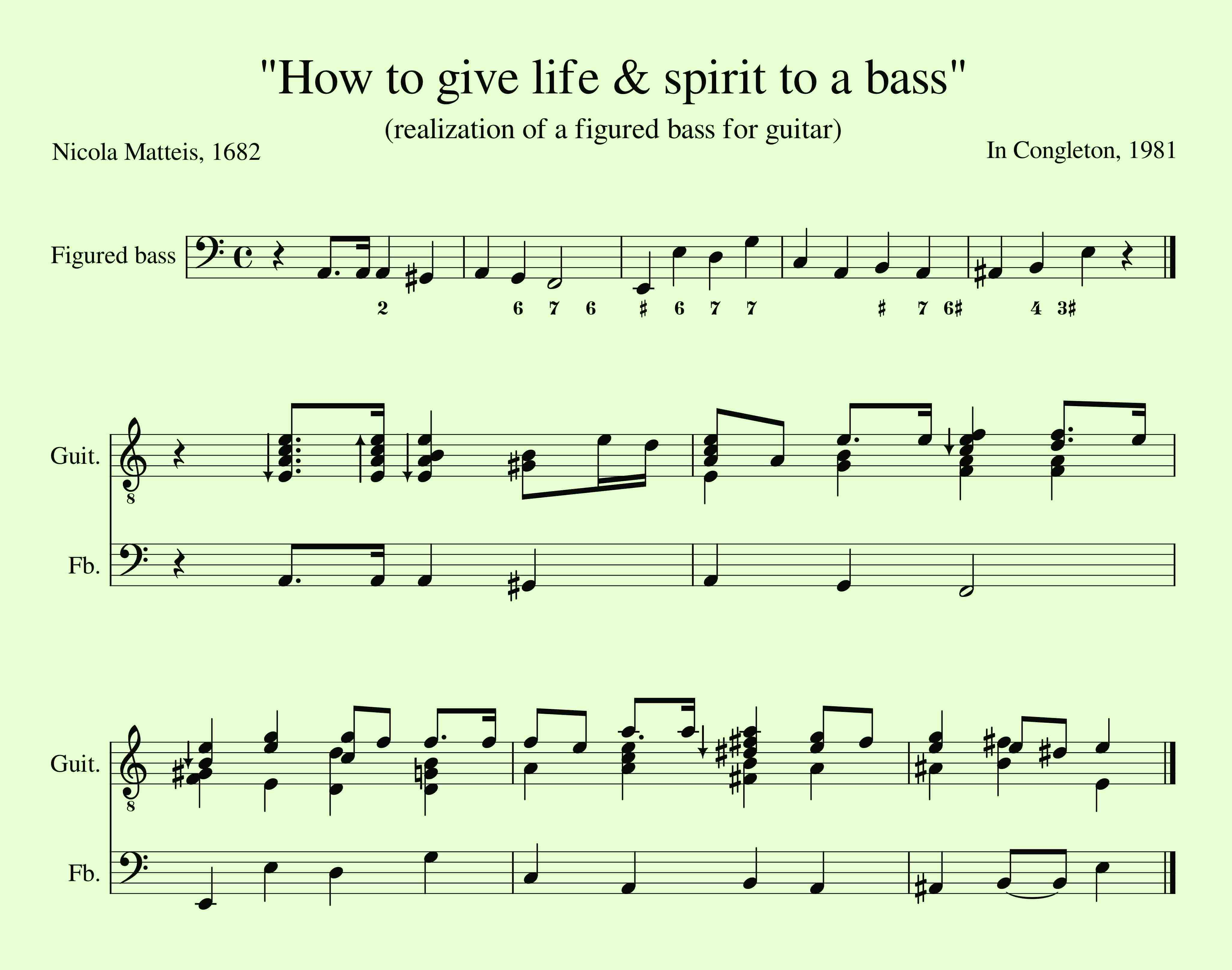 A guitar realization of a short figured bass by Nicola Mattei